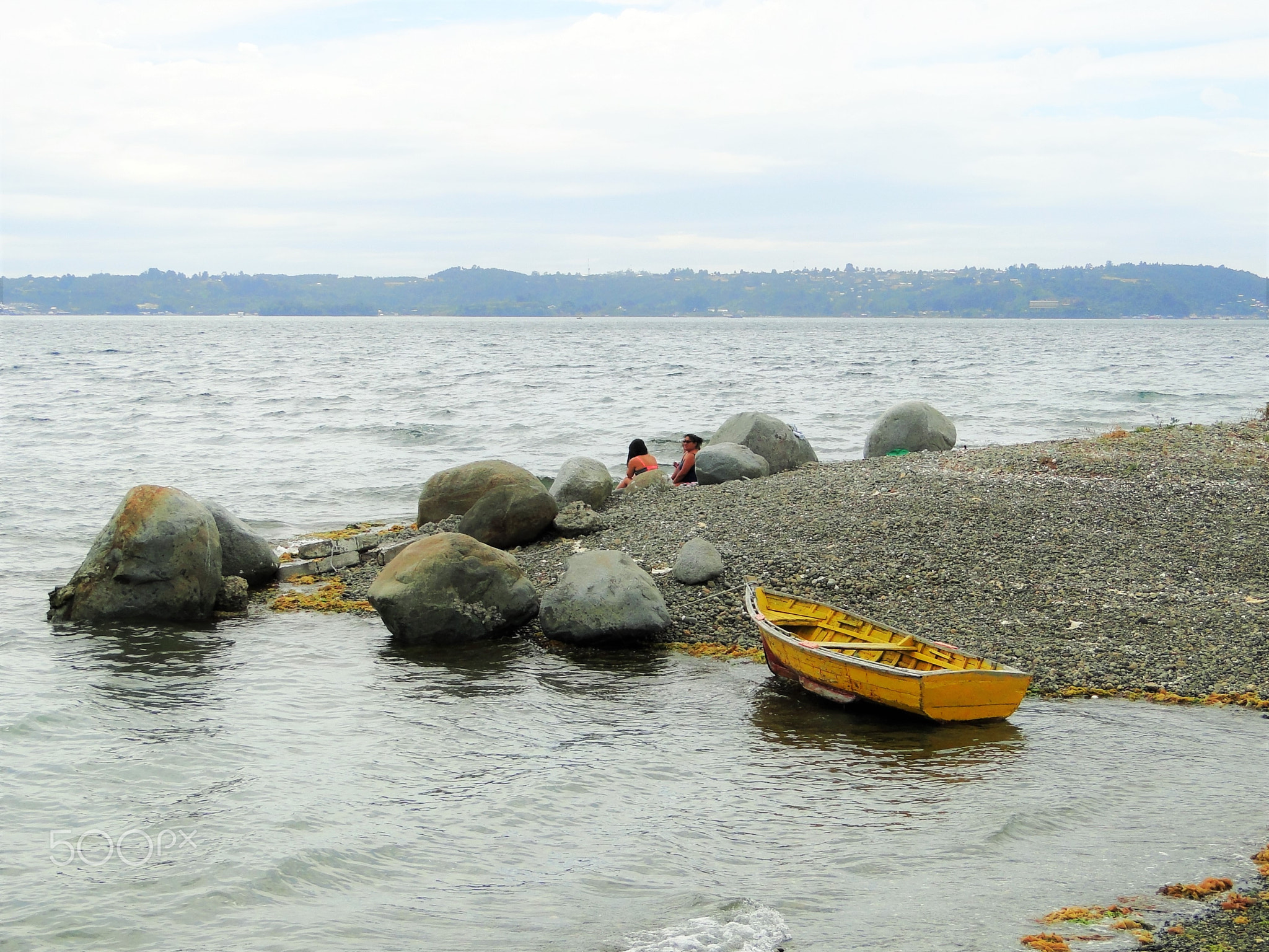 500px provided description: Beach near the dock of the island maillen (Regi?n de los Lagos, Chile) [#boat ,#island ,#clouds ,#coastline ,#ocean ,#chile ,#vacations ,#boating ,#jetty ,#chilo? ,#puerto montt ,#Los Lagos Region ,#maillen]